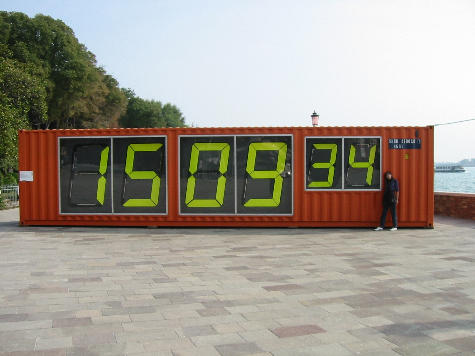 Digital clock built into a standard ISO-Container